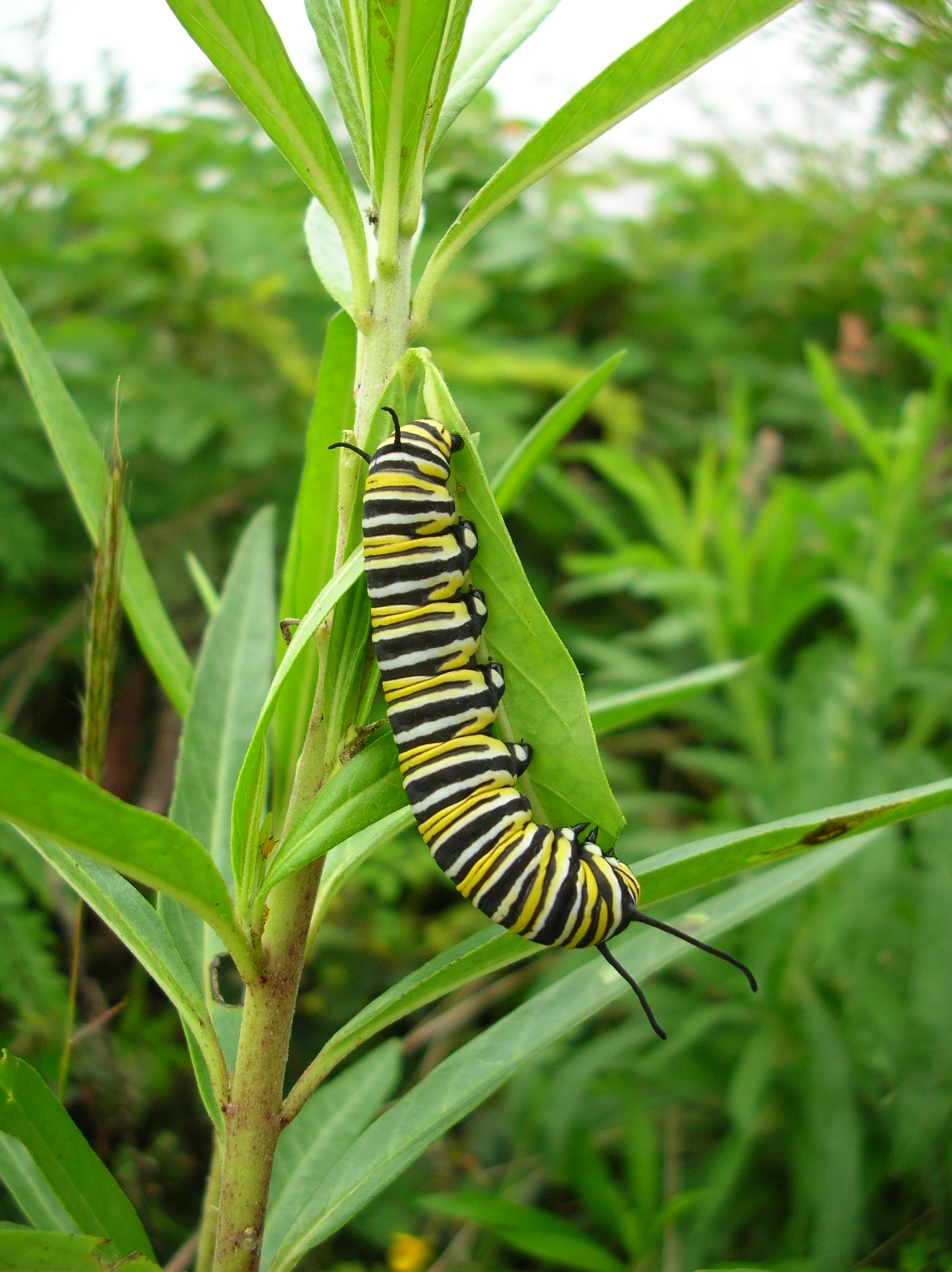 Asclepias physocarpa (with monarch larva). Location: Kahoolawe, Lua Makika